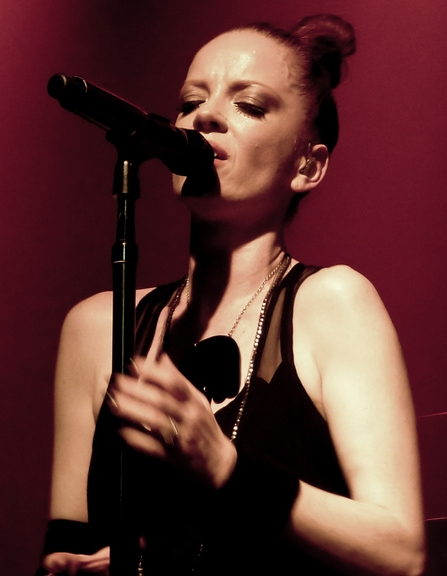 Scottish singer and actress Shirley Manson performing live 2012